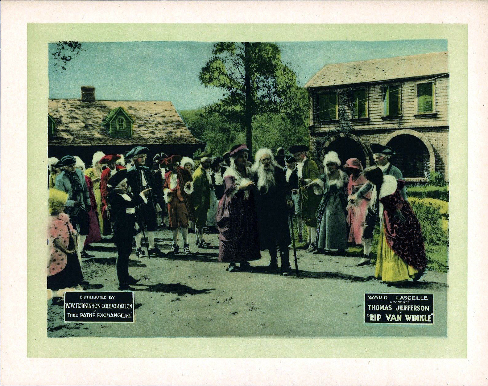 Lobby card for the American fantasy film Rip Van Winkle (1921) with Daisy Jefferson and Thomas Jefferson.